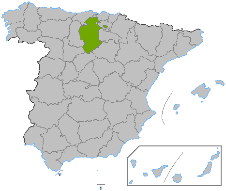 Location of the province of Burgos, in Spain. Basado en: ProvPont.jpg Source: Designed by Satesclop. Original picture, designed by Sobreira.